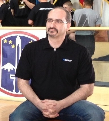 U.S. Army Europe Commanding General Lt. Gen. Donald Campbell is interviewed by Fox Sports during their visit to the USAG Grafenwoehr community Feb. 6. Fox Sports is here with retired Major League Baseball players as part of a three-day visit to the garrison to help reinforce a “ready and resilient” Army and inspire, motivate and educate Army in Europe Soldiers, civilian employees and family members about the importance of a healthy lifestyle. During the visit sponsor Fox Sports will produce a short film that showcases the Army in Europe community and the resiliency and spirit of its members and their contributions to national defense. (photo by Richard Bumgardner)